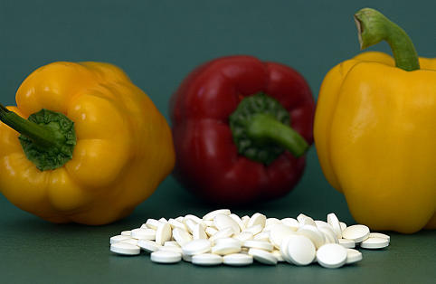 "500-mg Vitamin C Tablets and Paprikas" published in PMID:15971944 Albert Szent-Györgyi wrote that he won a Nobel Prize after he found a way to mass produce vitamin C for research purposes when he lived in Szeged, which had become the center of the paprika (red pepper) industry.[1] ↑ (June 1963). "Lost in the Twentieth Century". Annual Review of Biochemistry 32 (1): 1-15. PMID 14140702. Retrieved on June 17, 2018.